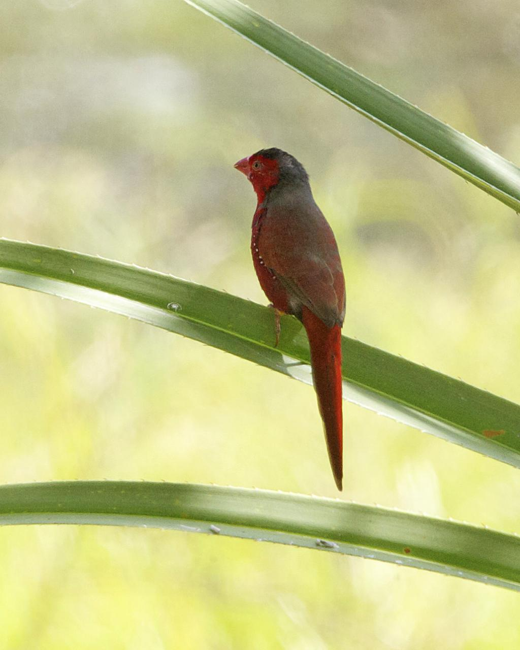 Crimson Finch Neochmia phaeton Darwin, Northern Territory, Australia August 2010 690V9771